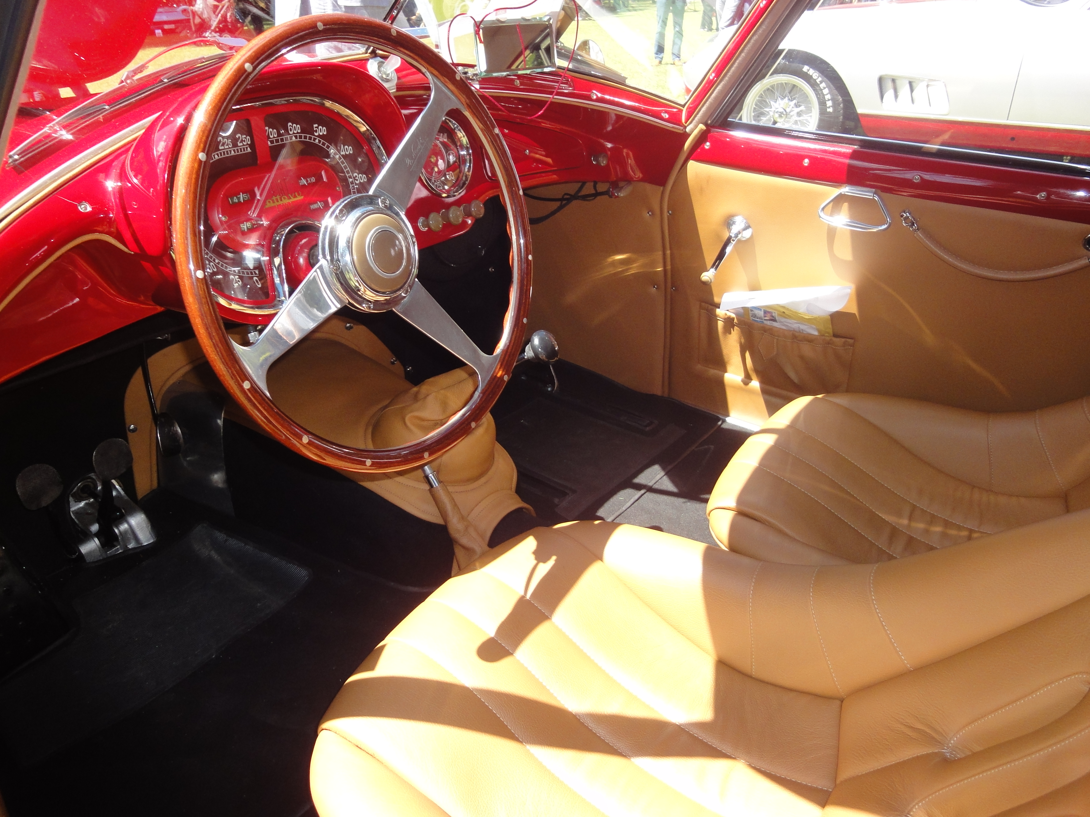 1953 Fiat 8V s/n 000027 at the Concorso d'eleganza Villa d'Este in Italy on 26 May 2013.